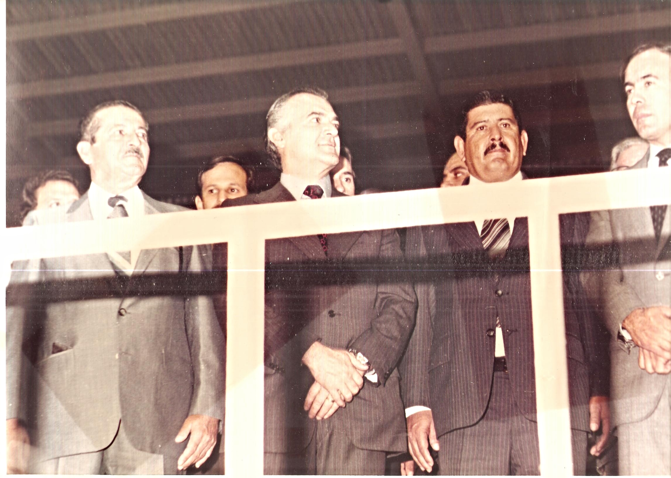 Miguel de la Madrid Hurtado